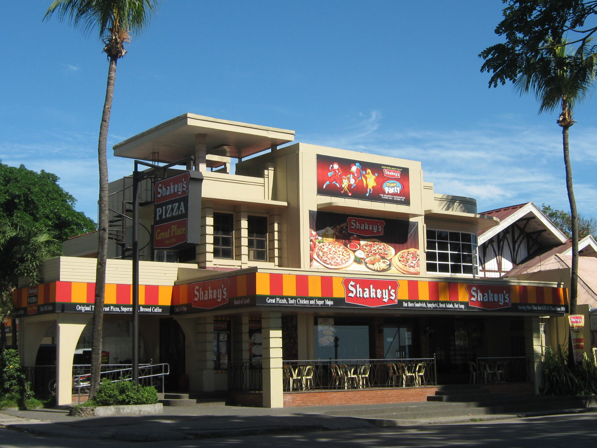 A Shakey's Pizza restaurant along Rizal Boulevard in Dumaguete City